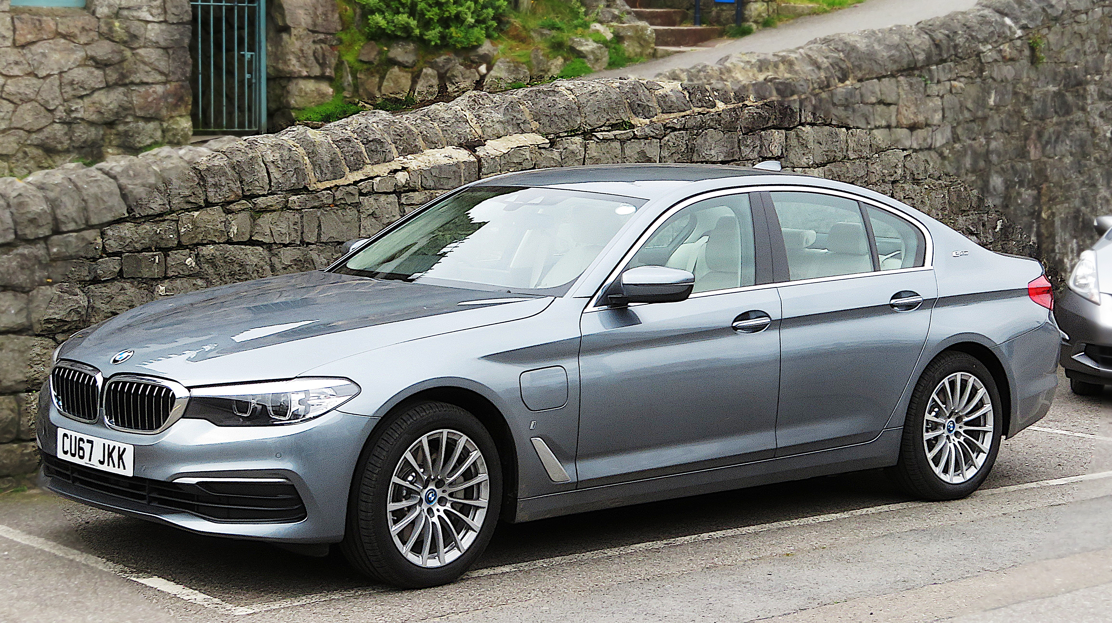 BMW 530e iPerformance in Mumbles License plate has been changed for anonymisation purposes but year code remains correct